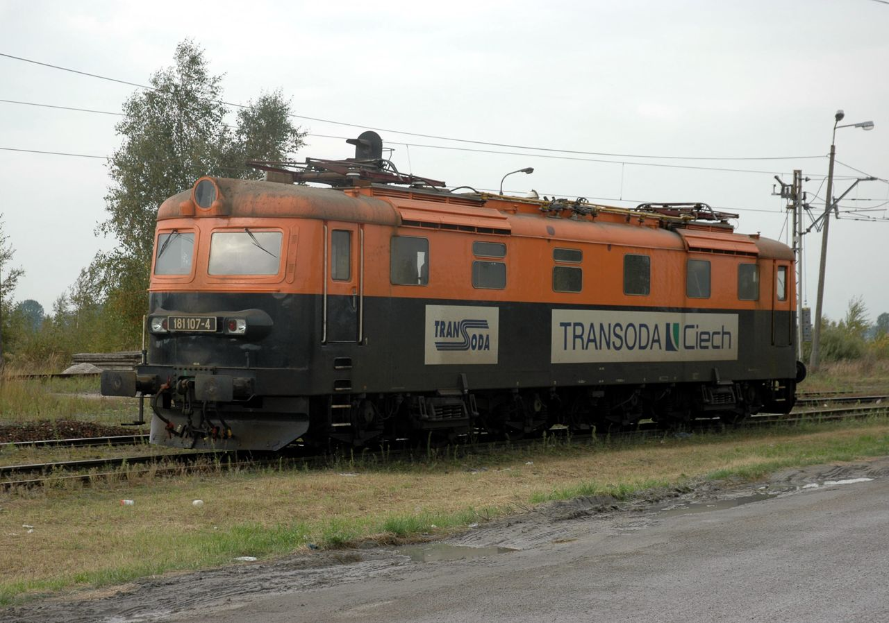 Locomotive 181.107 of ČD Cargo hired to Transoda railway operator, Inowrocław, Poland